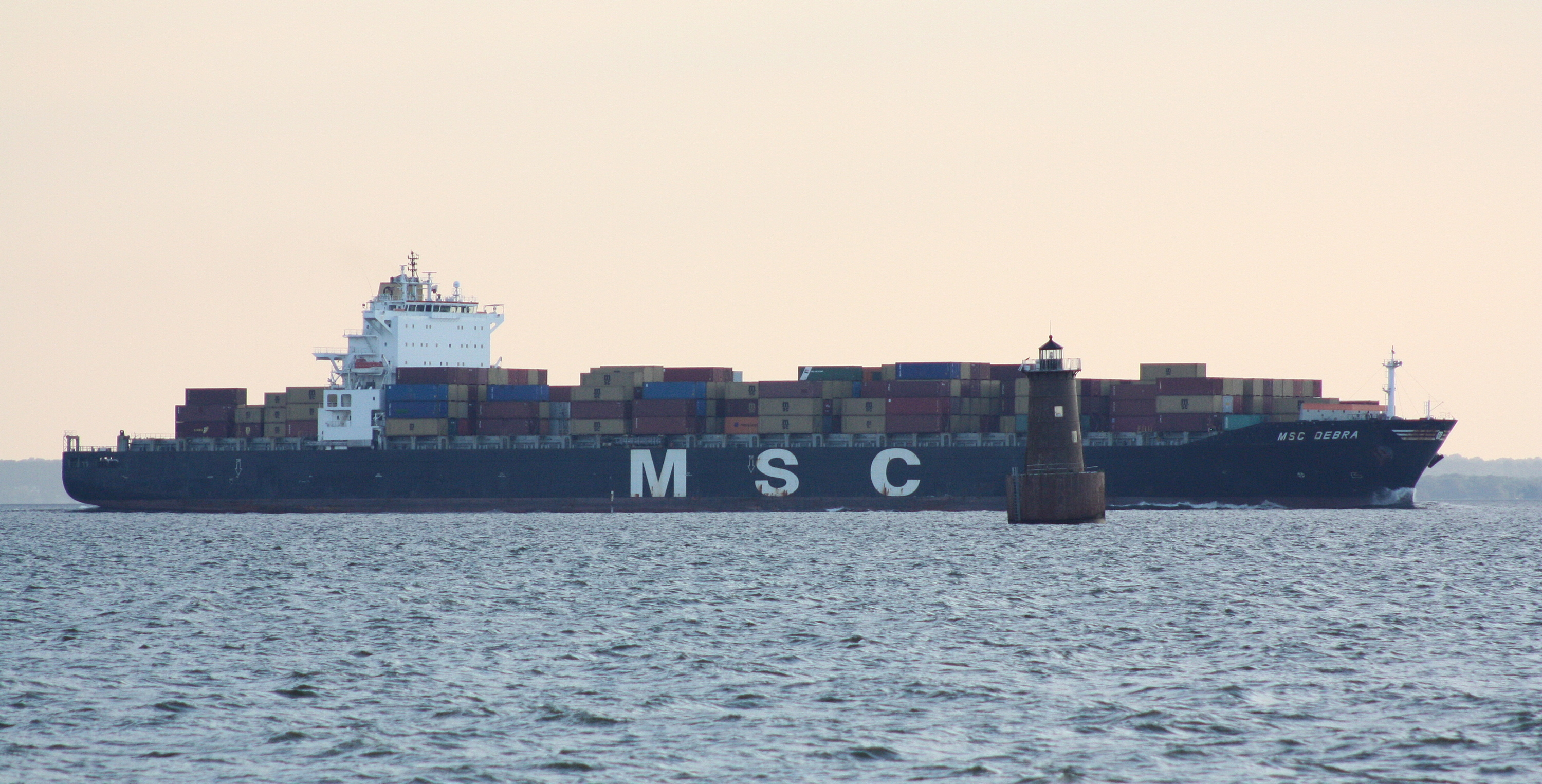 The container ship MSC Debra near Bloody Point Bar Light in Cheasapeake Bay.